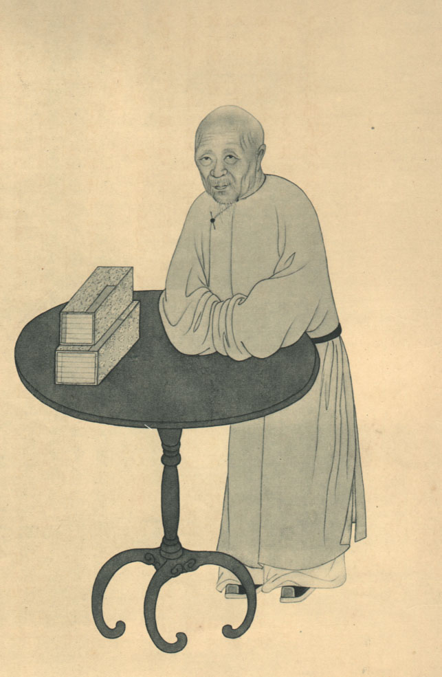 Qian Lucan, scholar of the Qing Dynasty.